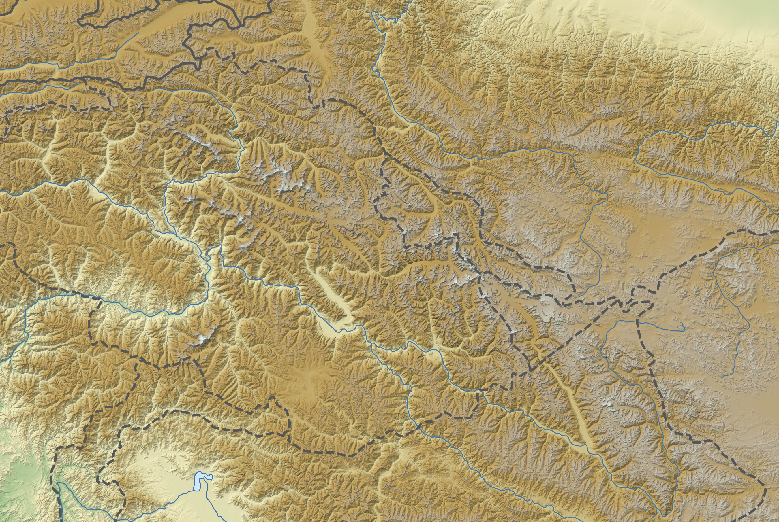 Location map of the Karakoram Equirectangular projection, N/S stretching 124 %. Geographic limits of the map: N: 37.4° N S: 34.1° N W: 73.0° E E: 79.1° E